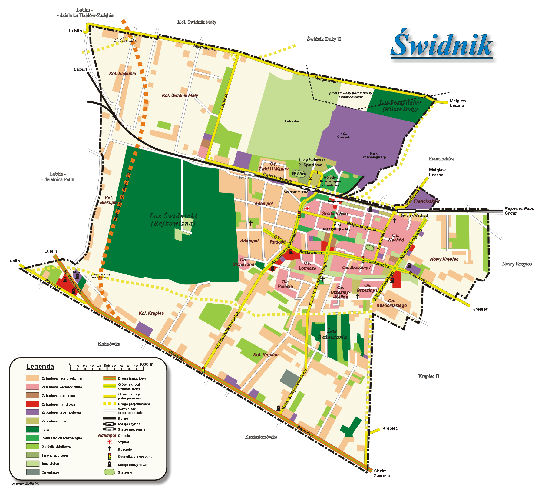 City map of Swidnik